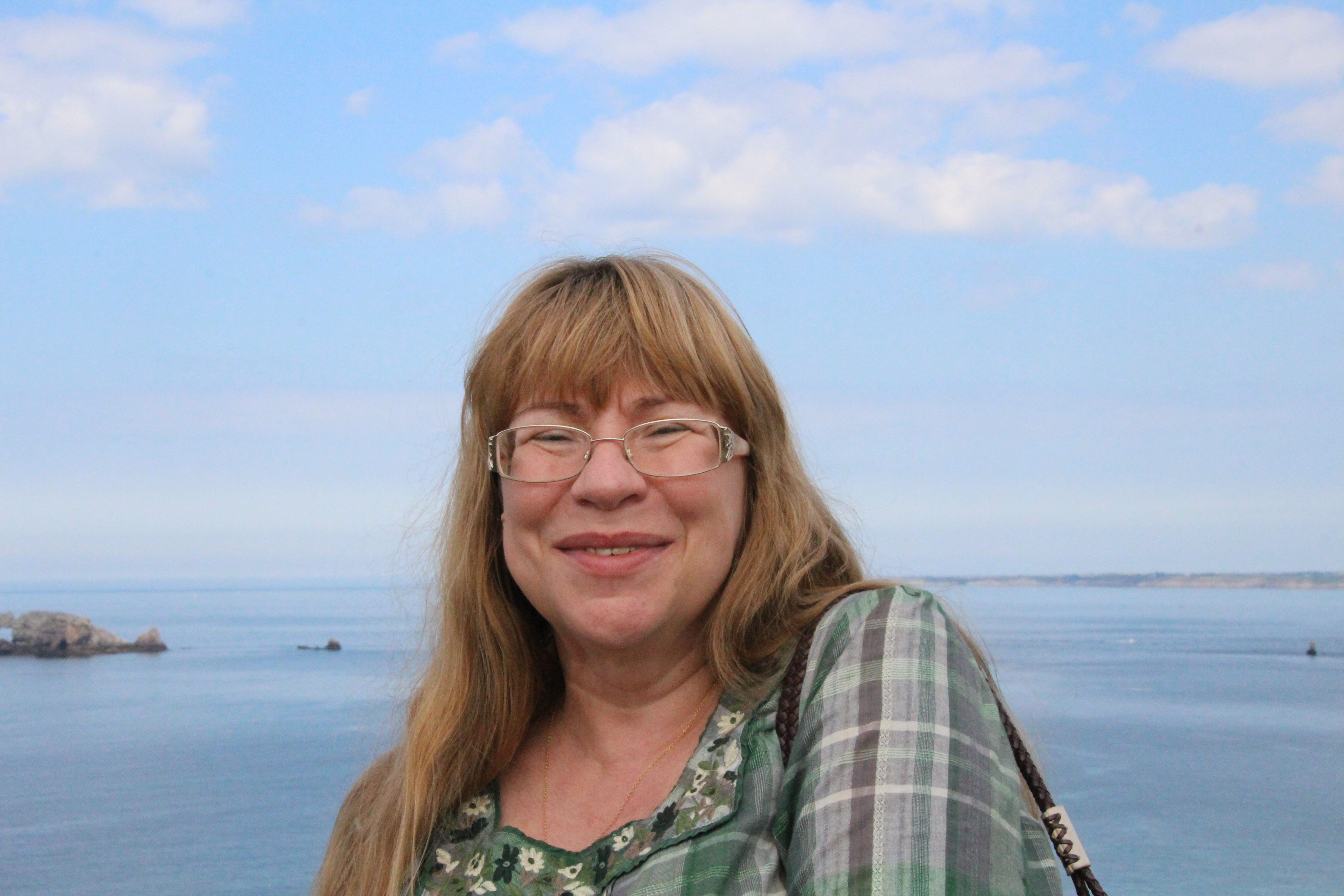 Portrait of Jelena Petrovna Chudinova